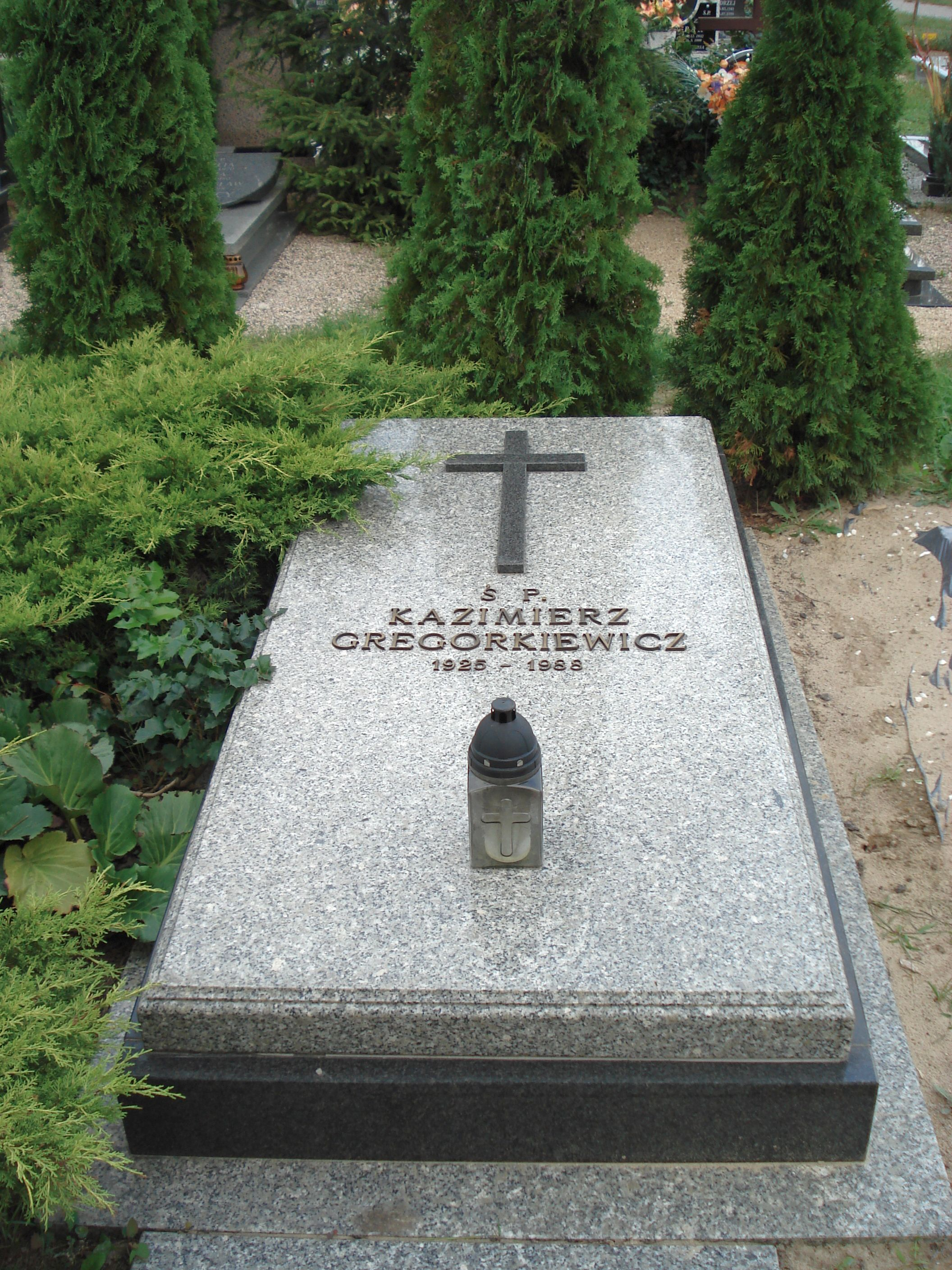 The tombstone of Kazimierz Gregorkiewicz in Poznań